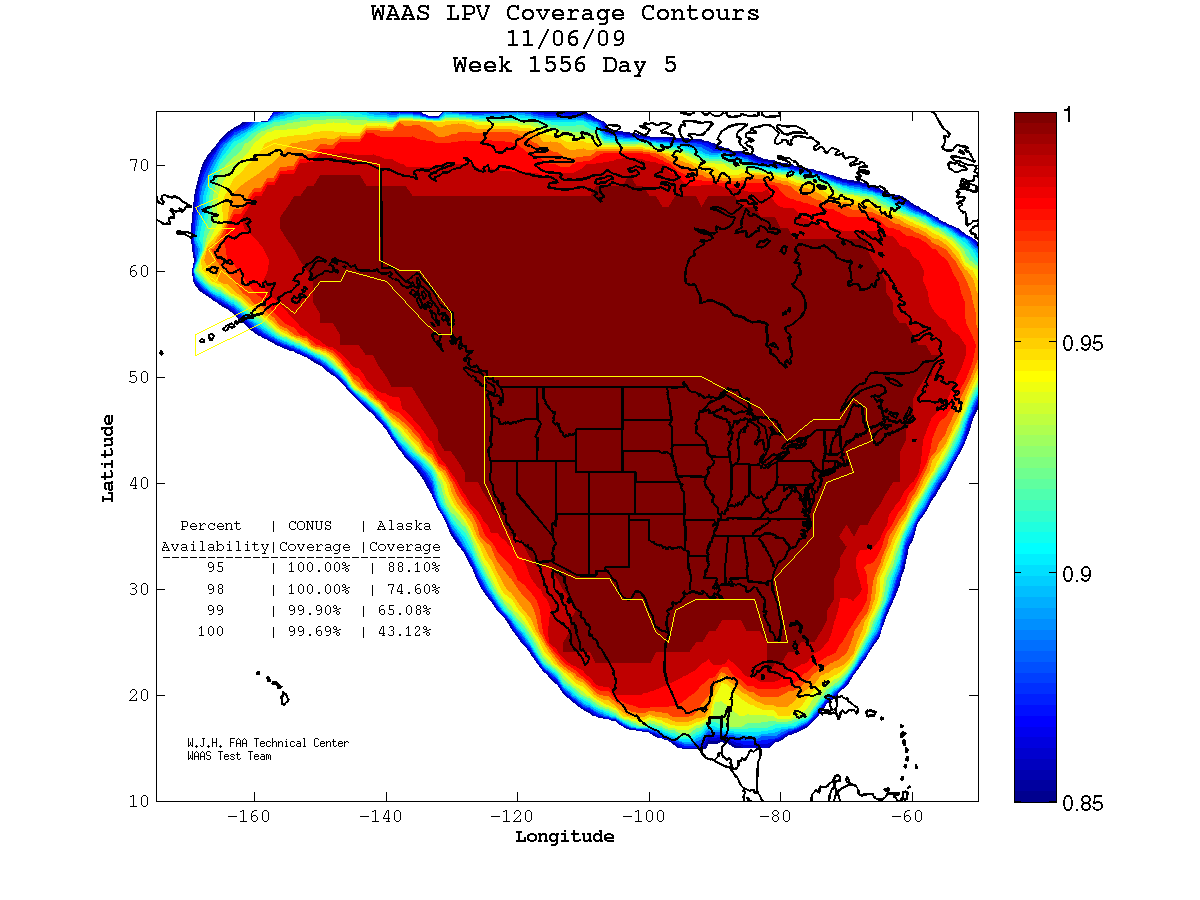 Area covered by Wide Area Augmentation System.